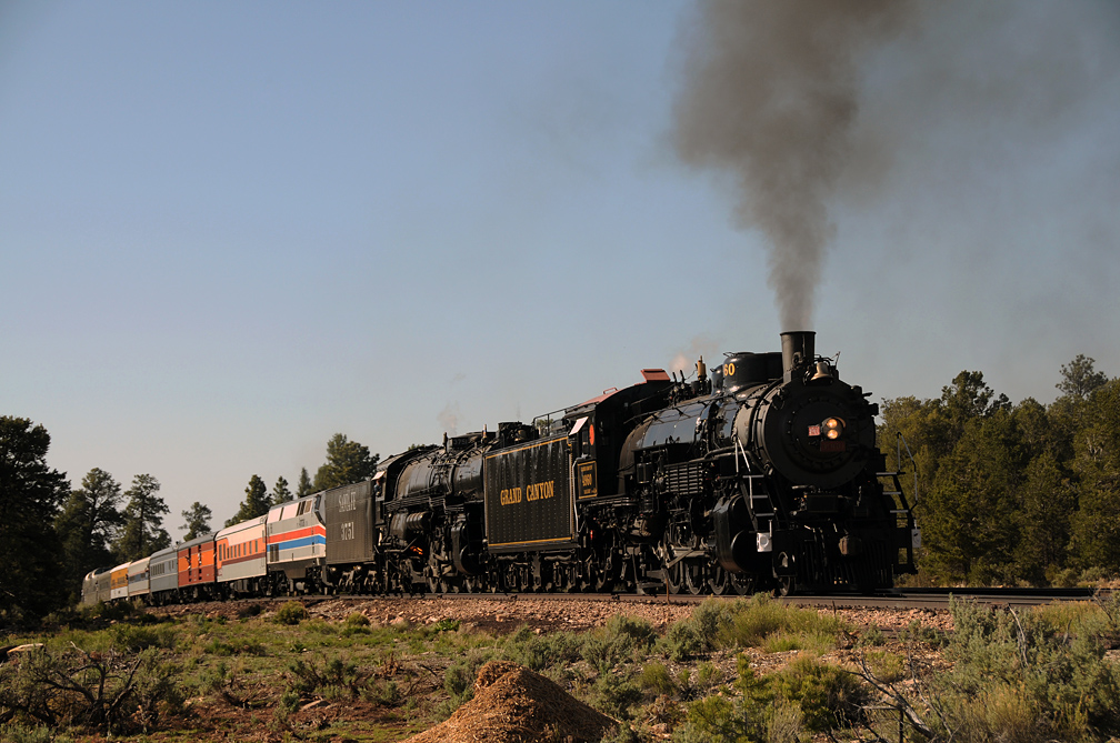 GCRy #4960 and ATSF #3751 leaving the Grand Canyon and seen at "Imblue" at one time known as Apex